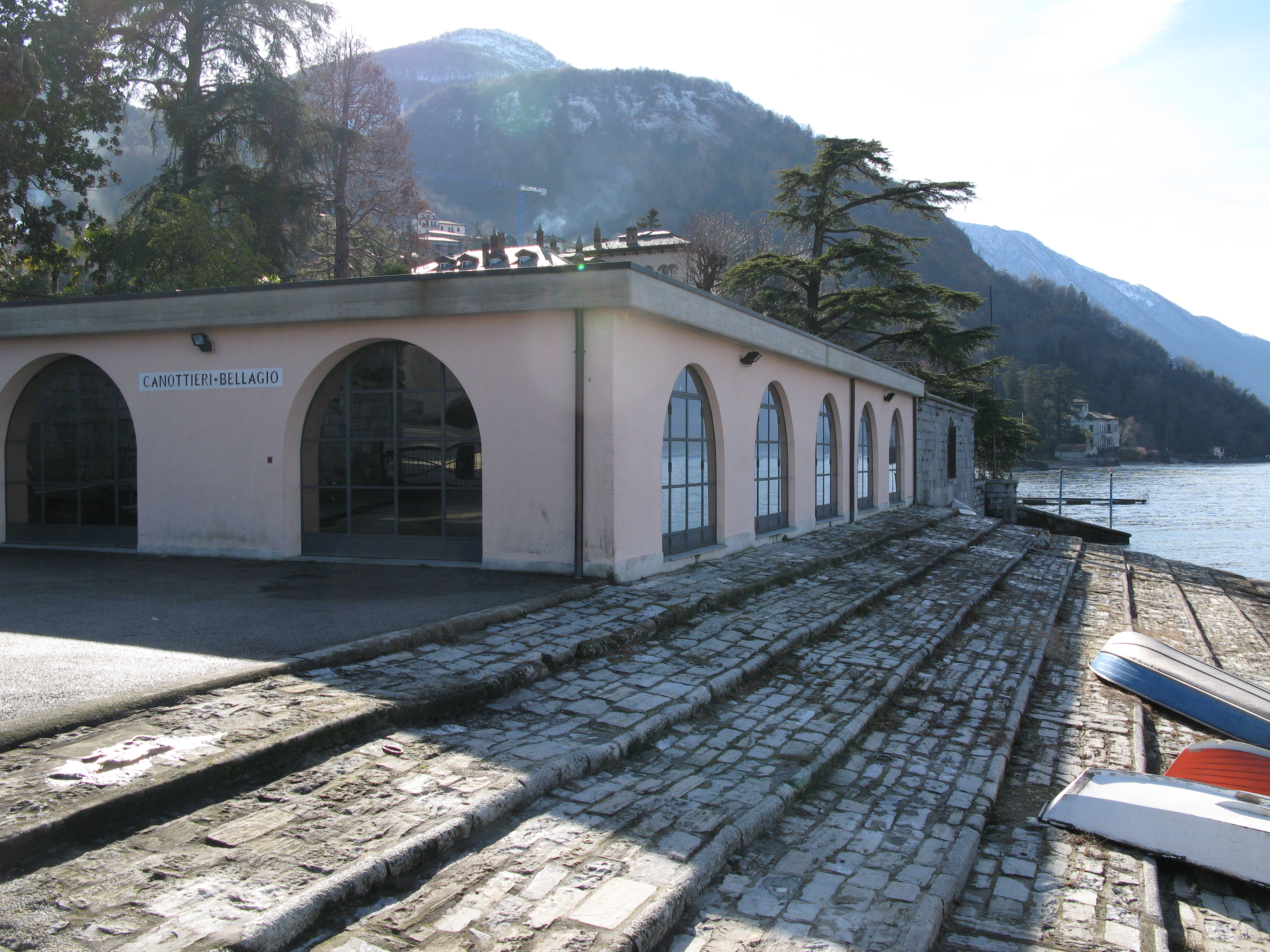 A view of Canottieri Bellagio building